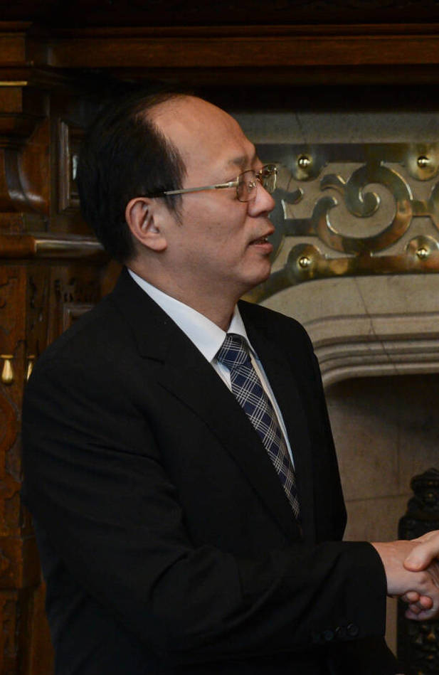 Gou Zhongwen alongside Mauricio Macri, september 2017